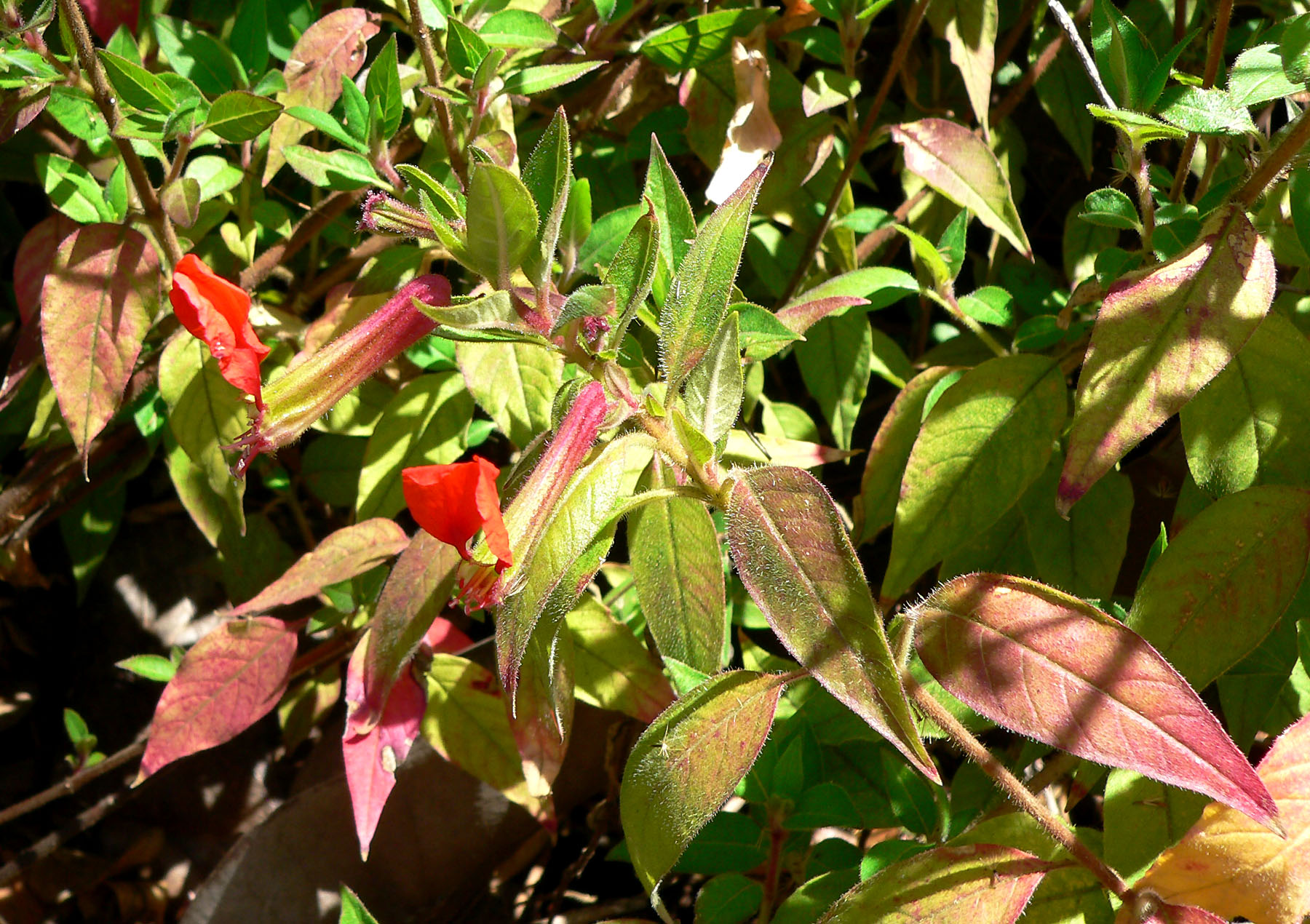 Cuphea nudicostata at the University of California Botanical Garden, Berkeley, California